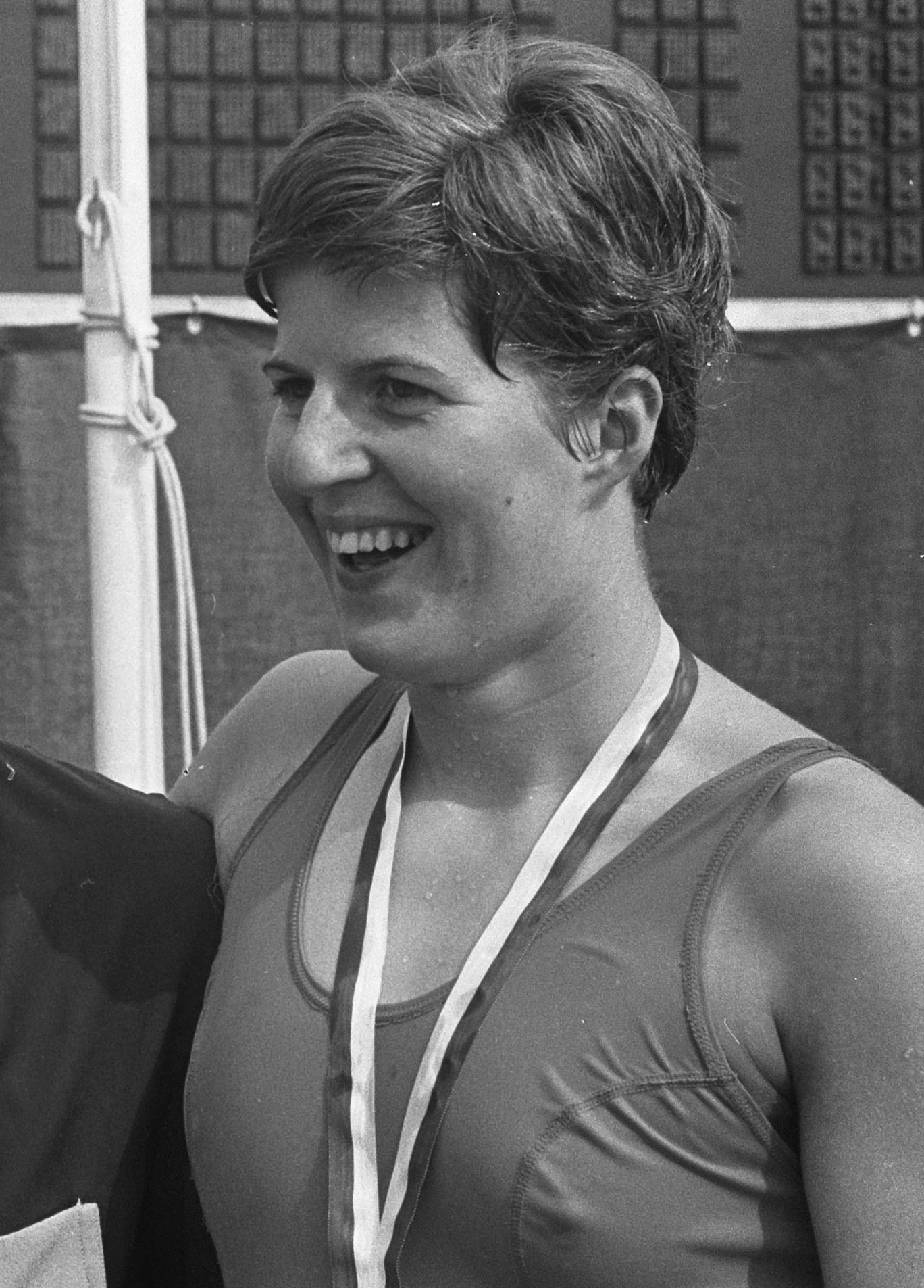 Coby Buter at international competitions (100 m backstroke)